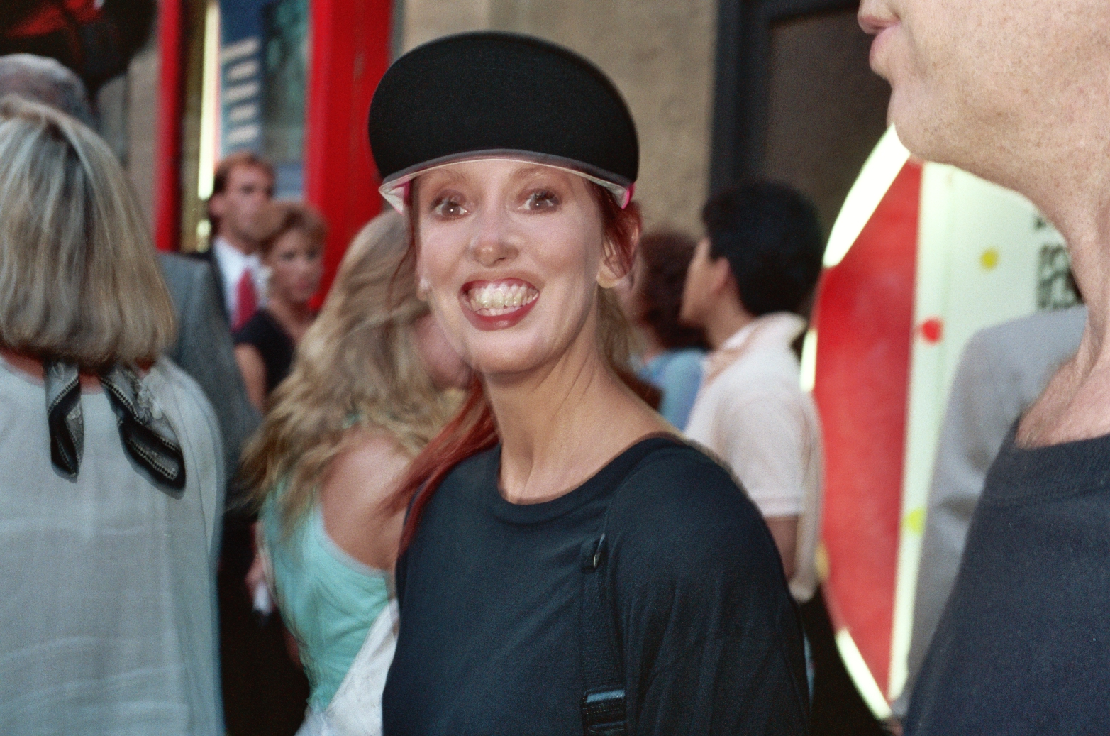 Shelley Duvall at a film premiere at Grauman's Chinese Theater in Hollywood, California